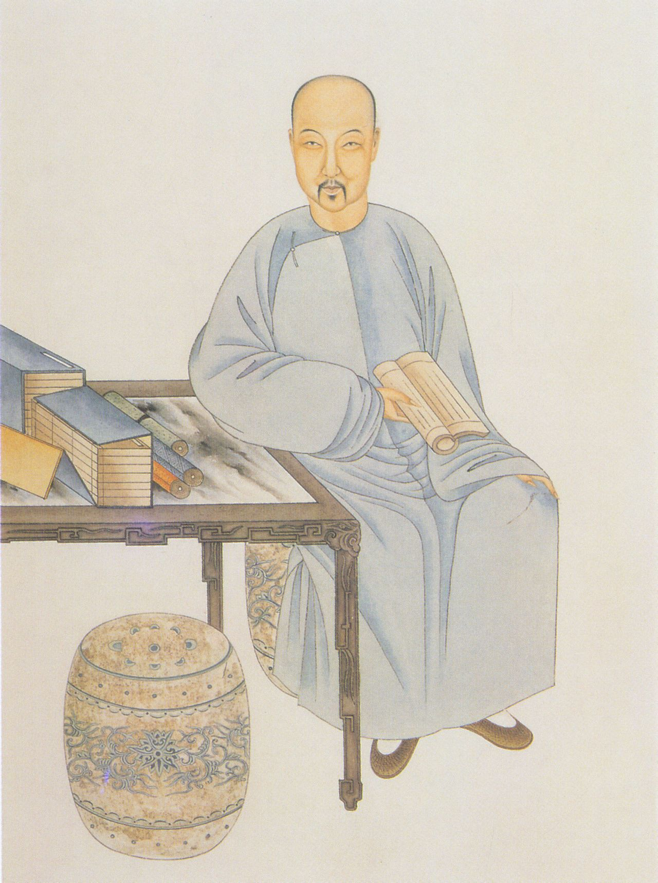 Ye Yanlan's portrait of Nalan Xingde in Ye's 1928 book Portraits of Qing Dynasty Scholars (清代學者像傳).